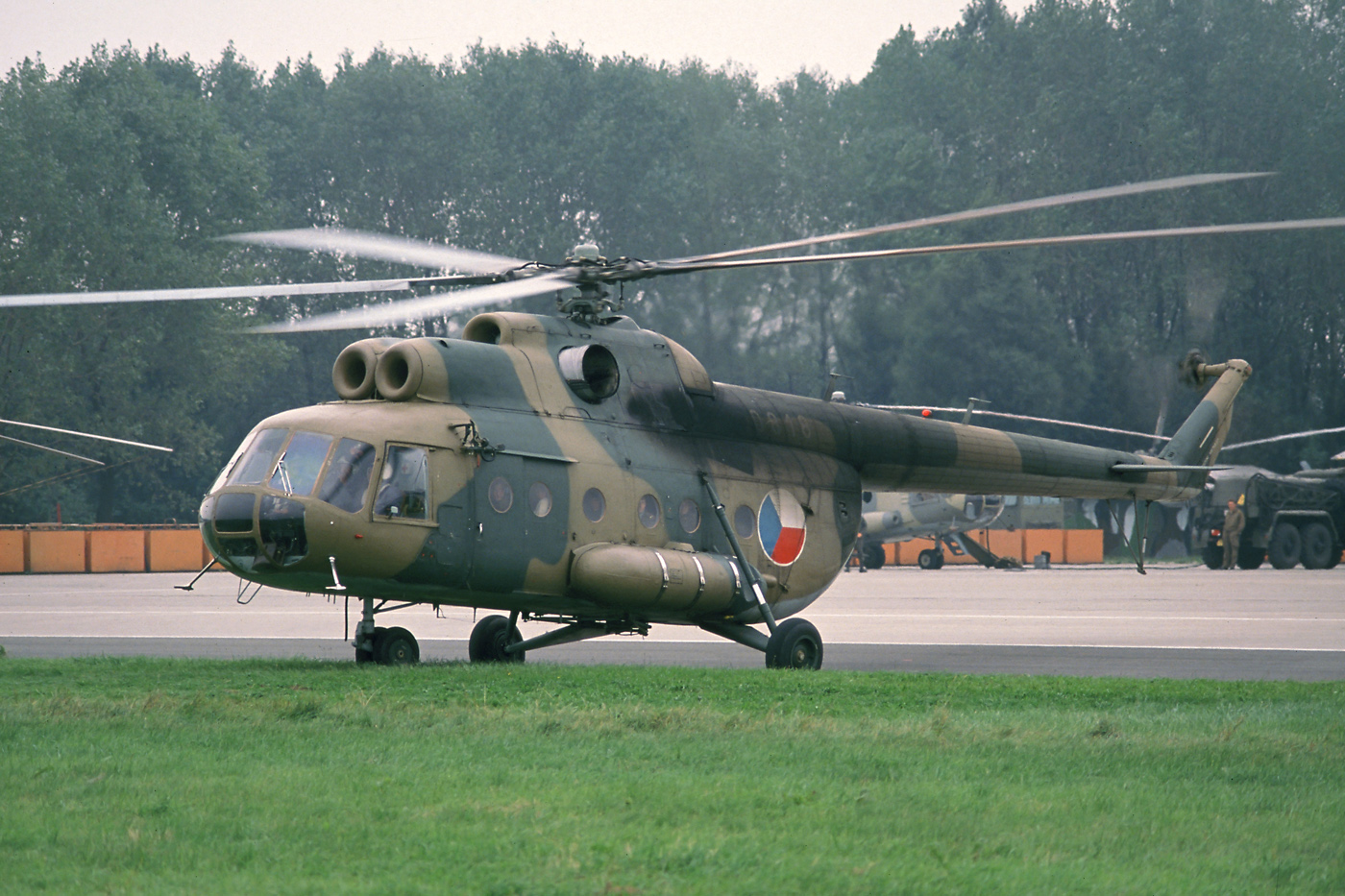 Ostrava, 3 September 1989. One year after the first amazing show at Kbely I drove all the way to Ostrava. The weather was bad, but it was worth the effort. 0818 is preserved in the museum at Vyskov, near the highway north of Brno. There's is also a Mi-17 with serial 0818 that is still in service.